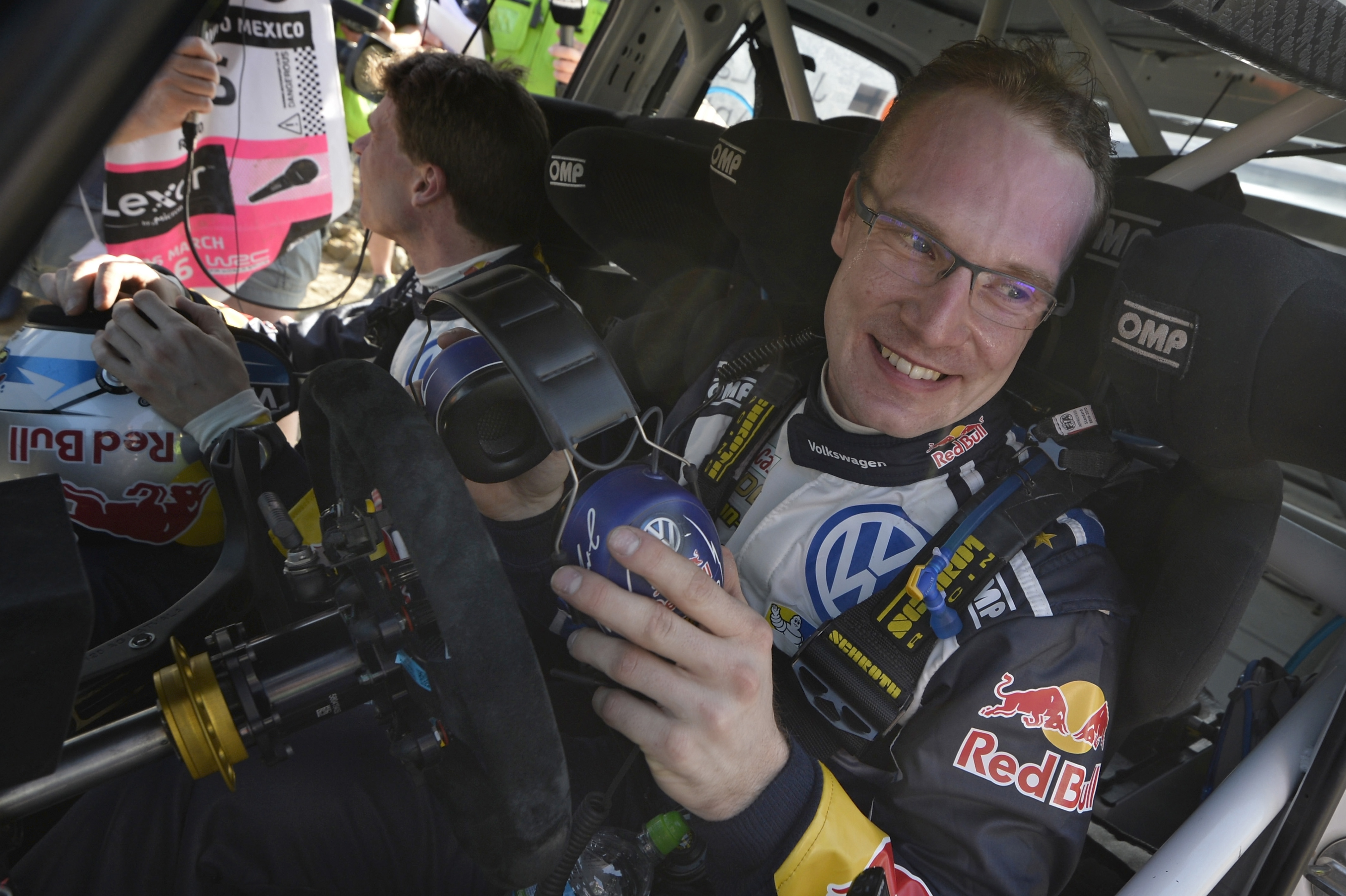 Jari-Matti Latvala and co-driver Miikka Anttila at the 2016 Rally Mexico.